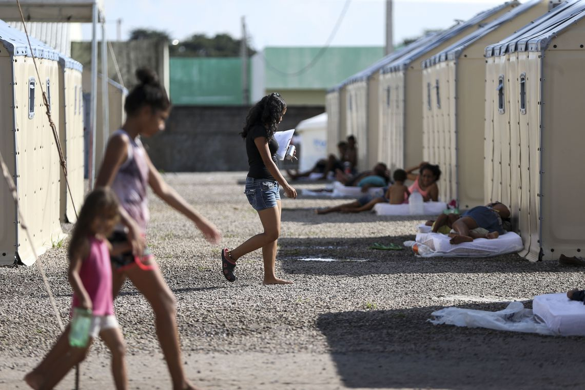 Venezuelan refugees in Boa Vista, Brazil.